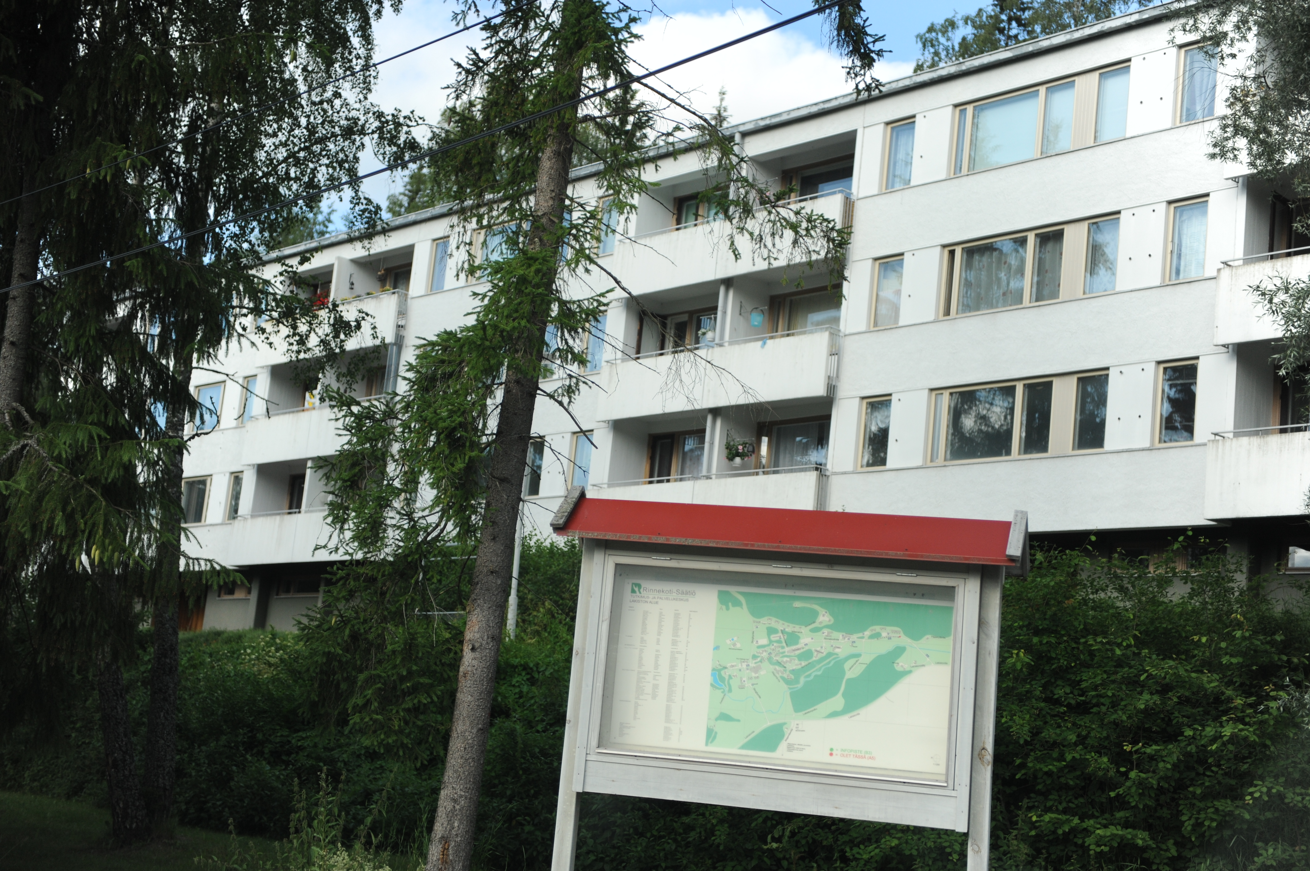 Rinnekodintie 3, Espoo